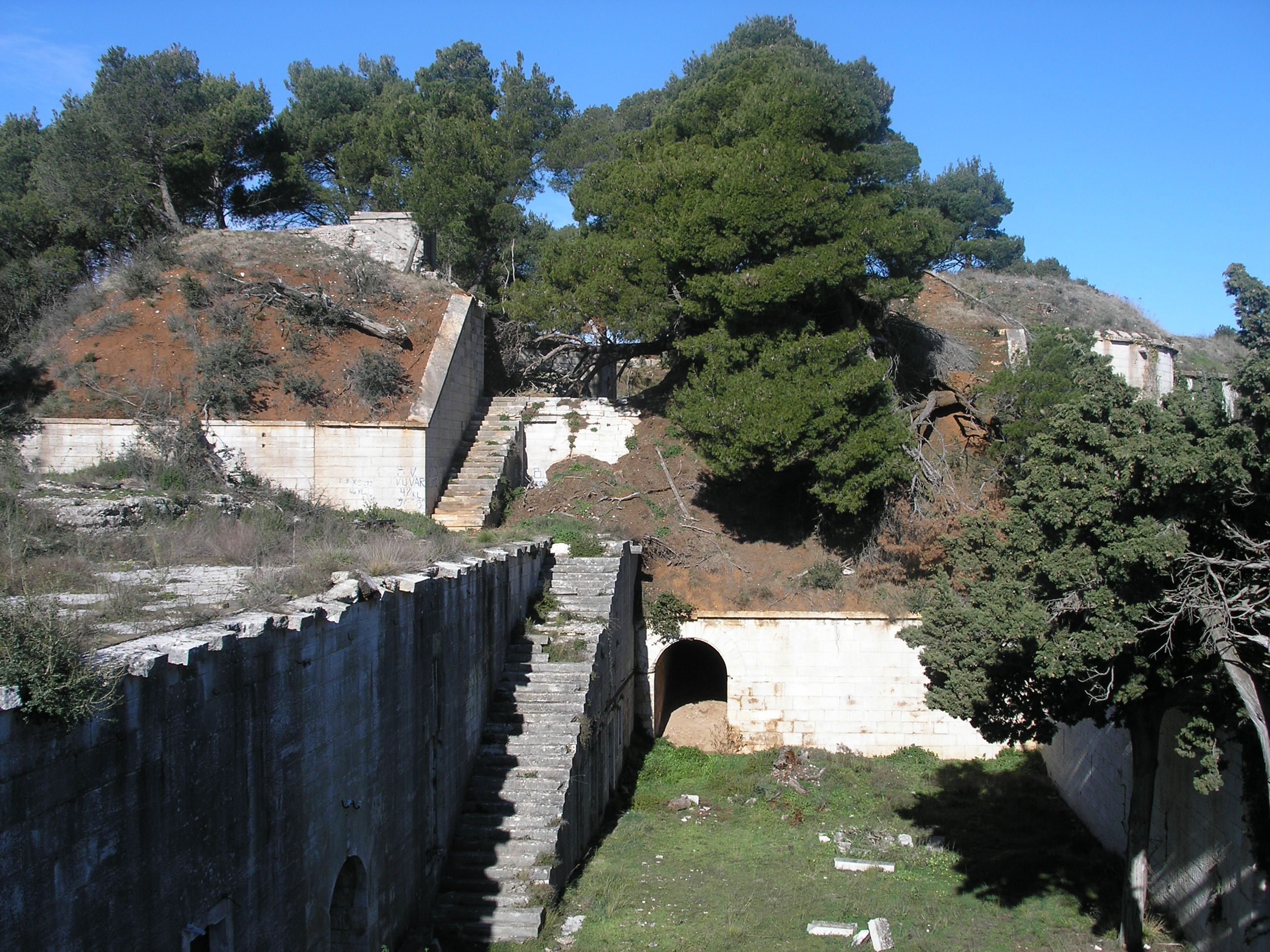 Fort Punta Christo, near Pula